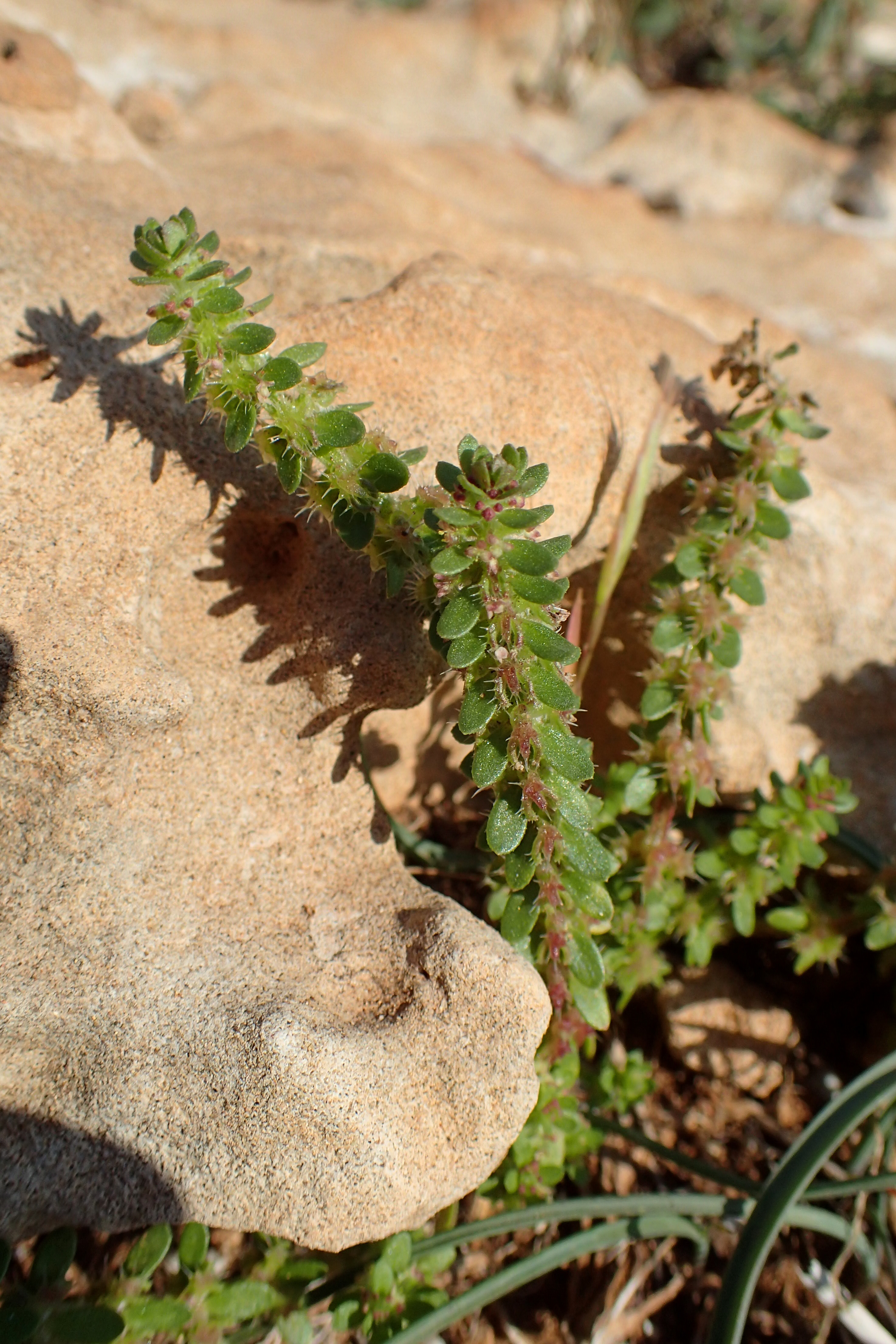 Valantia hispida in Kavo Gkreko, Cyprus